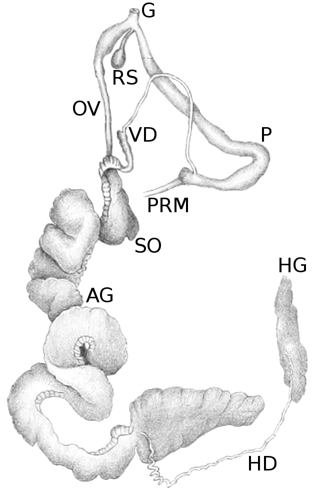 Drawing of the reproductive system of Limax maximus. HG = hermaphordite gland = ovotestis (OT) HD = hermaphroditic duct AG = albumen gland SO = spermoviduct OV = oviduct VD = vas deferenns = sperm-duct RS = receptaculum seminis P = penis PRM = penis retractor muscle G = genital pore